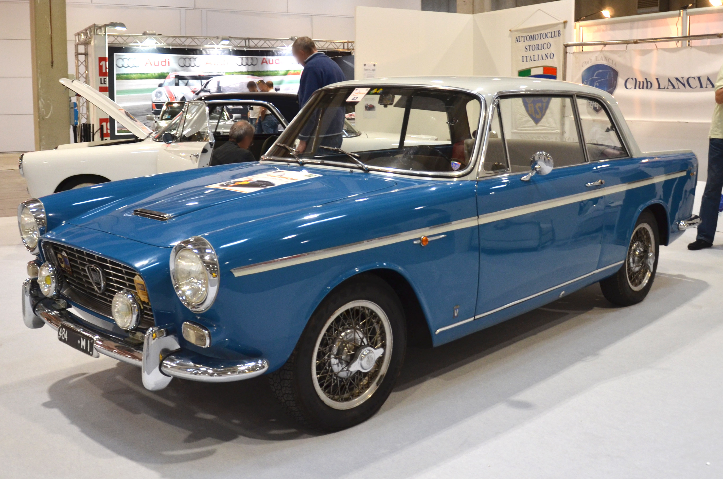 Lancia Appia Lusso Vignale, photographed at Verona Legend Cars 2015.